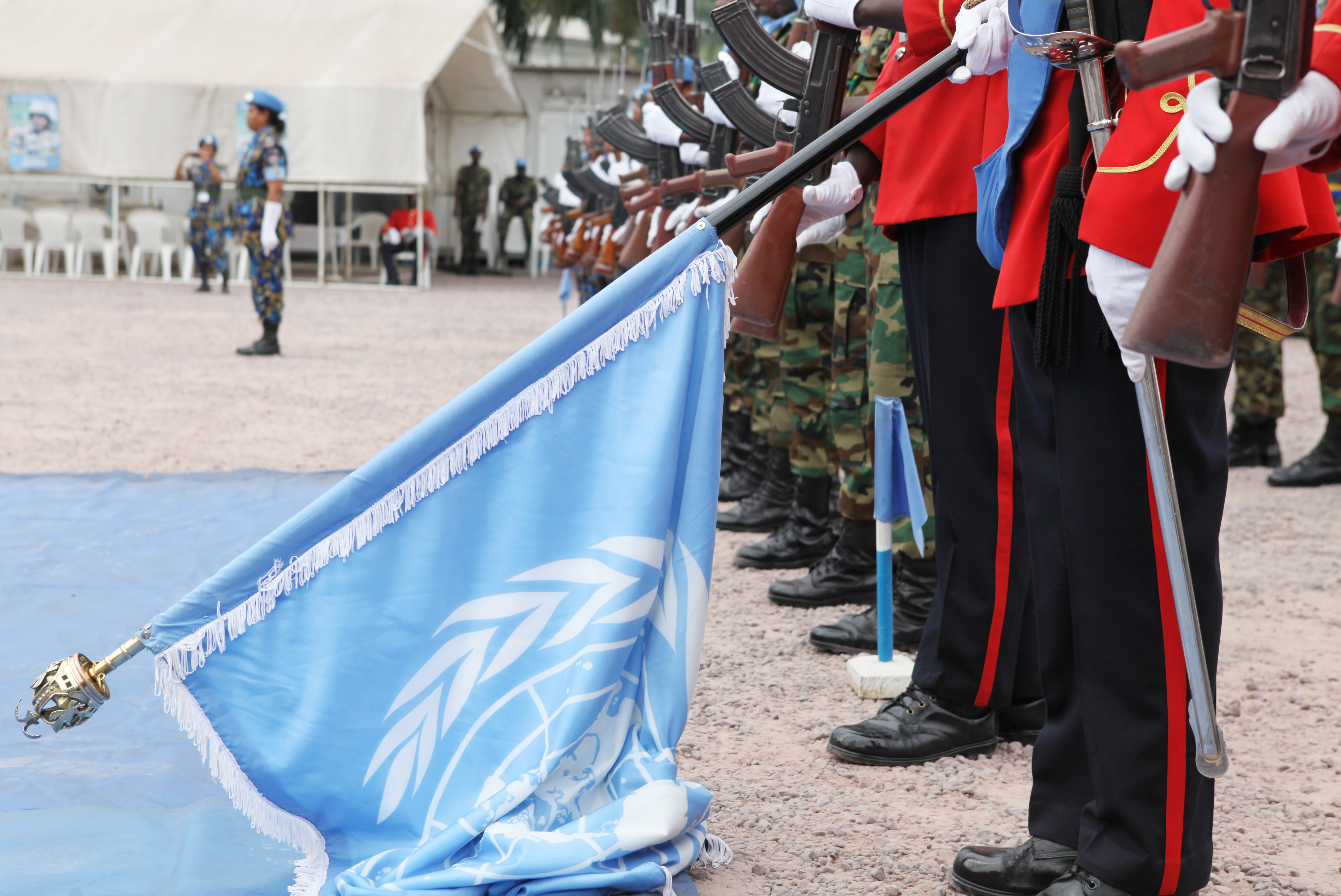 DRC Kinshasa 29/05/13 International Peacekeeping Day. Photo MONUSCO/ Myriam Asmani